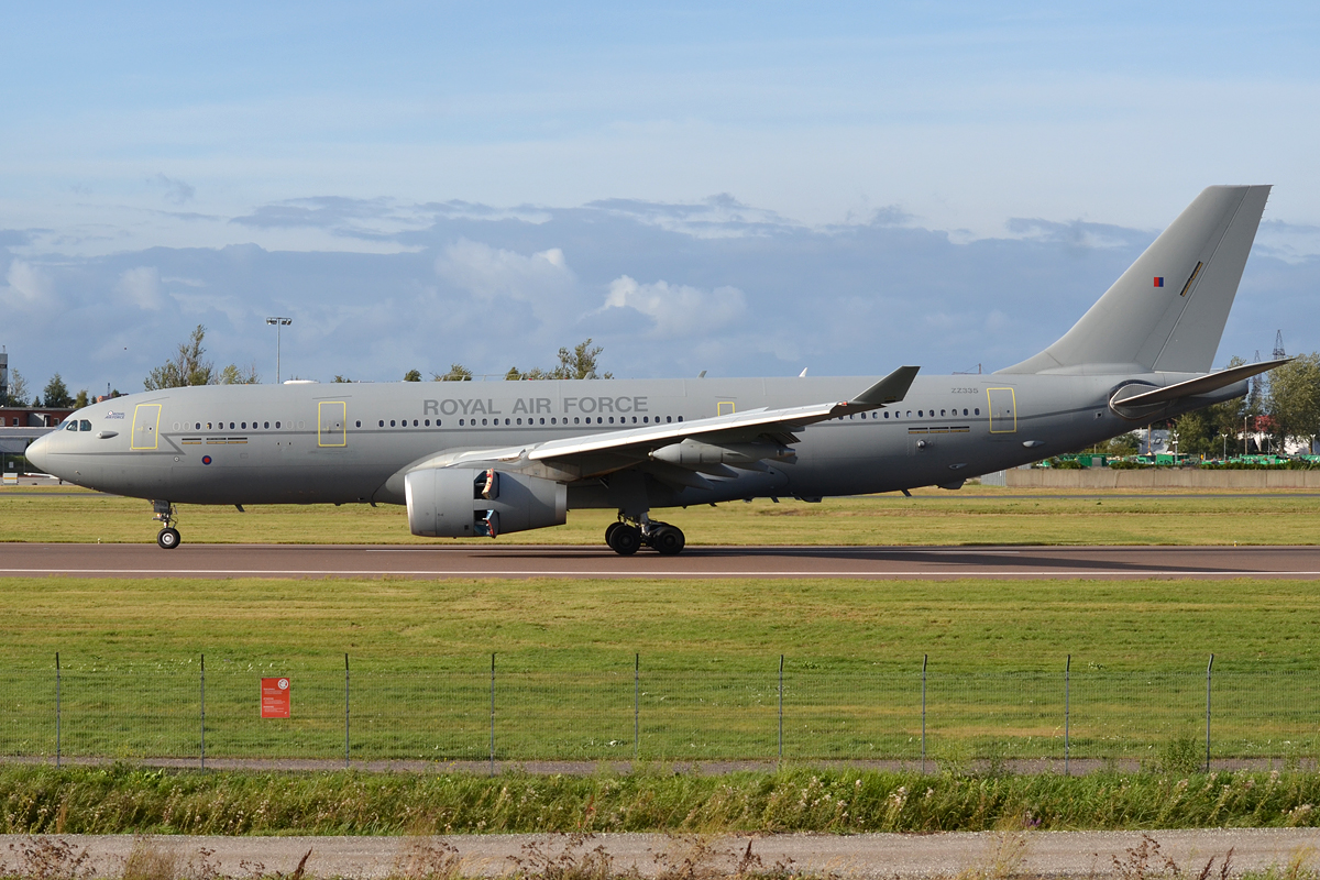 Royal Air Force, ZZ335, Airbus KC2 Voyager (A330-243MRTT)